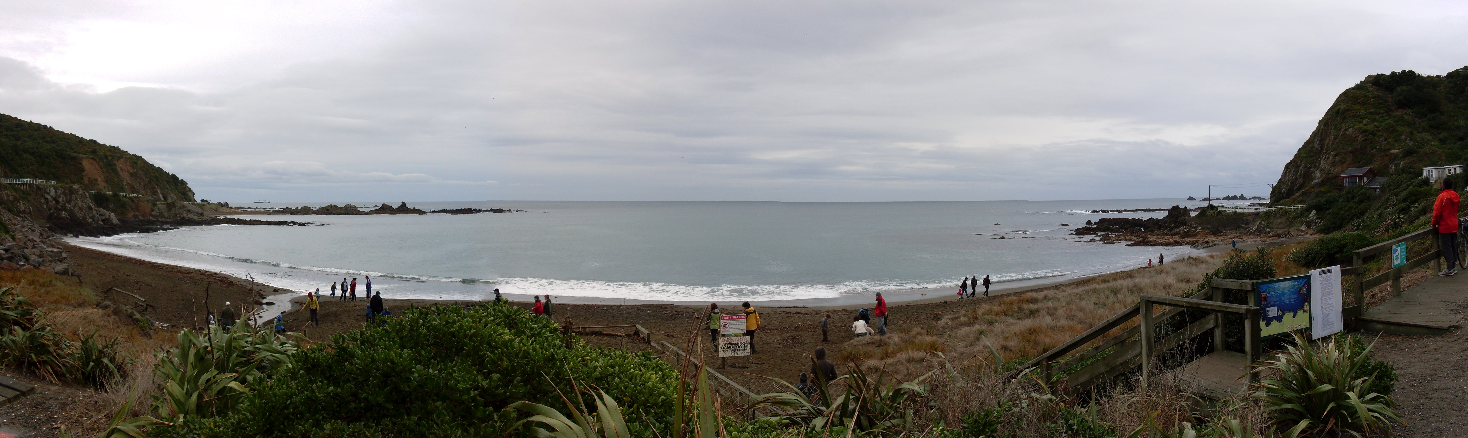 Panorama of the beach at Houghton Bay, Wellington, New Zealand, on the day that the giant squid washed up in the stream.